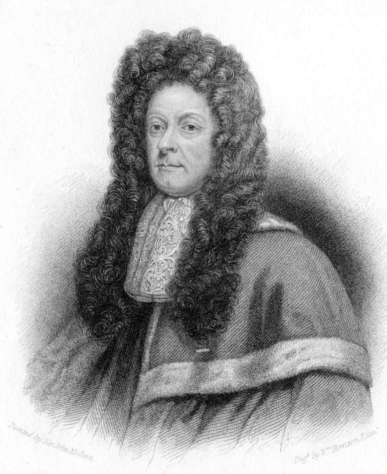 James Dalrymple, 1st Viscount of Stair (May 1619 – 29 November 1695)